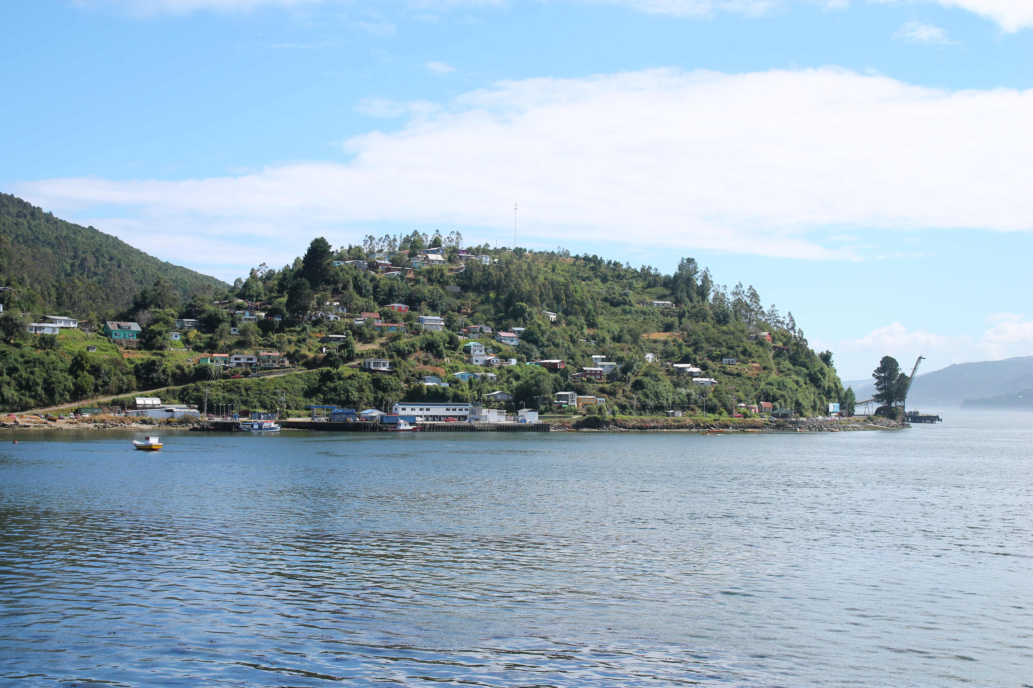 Corral